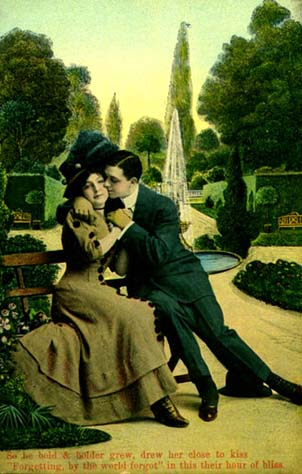 Postcard of couple in sparking in park. No date, probably first decade of the 20th century.caption:So he bold & bolder grew, drew her close to kiss"Forgetting by the world forgot" in this their hour of bliss